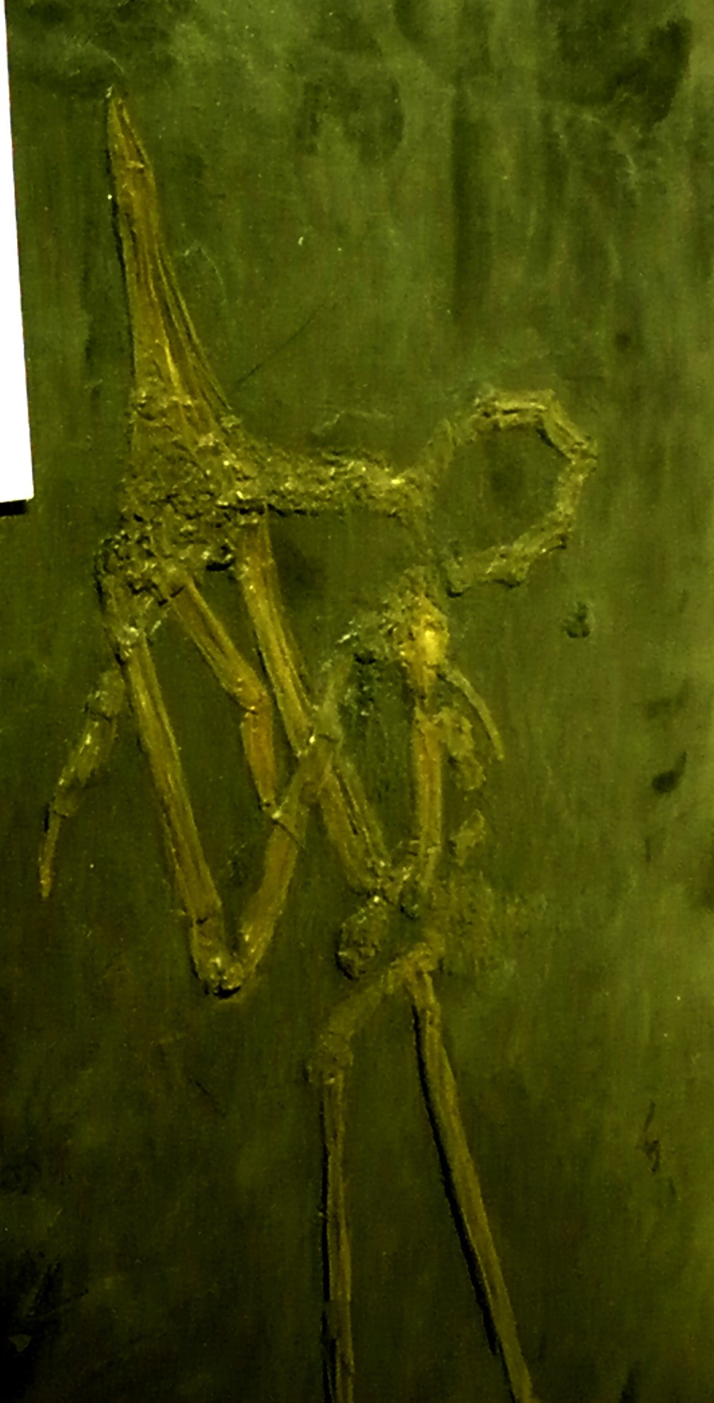 Fossil of Juncitarsus merkeli, an extinct flamingo-like bird Took the photo at Museo di Storia Naturale, Milano